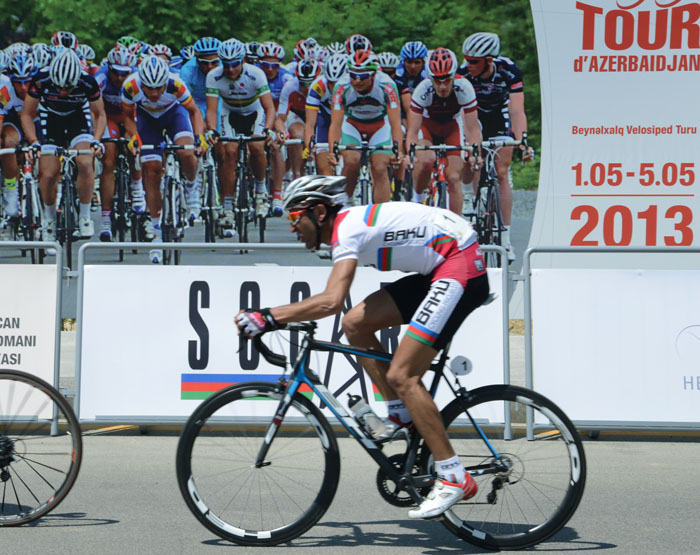 Cyclist from Azerbaijan competing at Tour d'Azerbaïdjan 2013